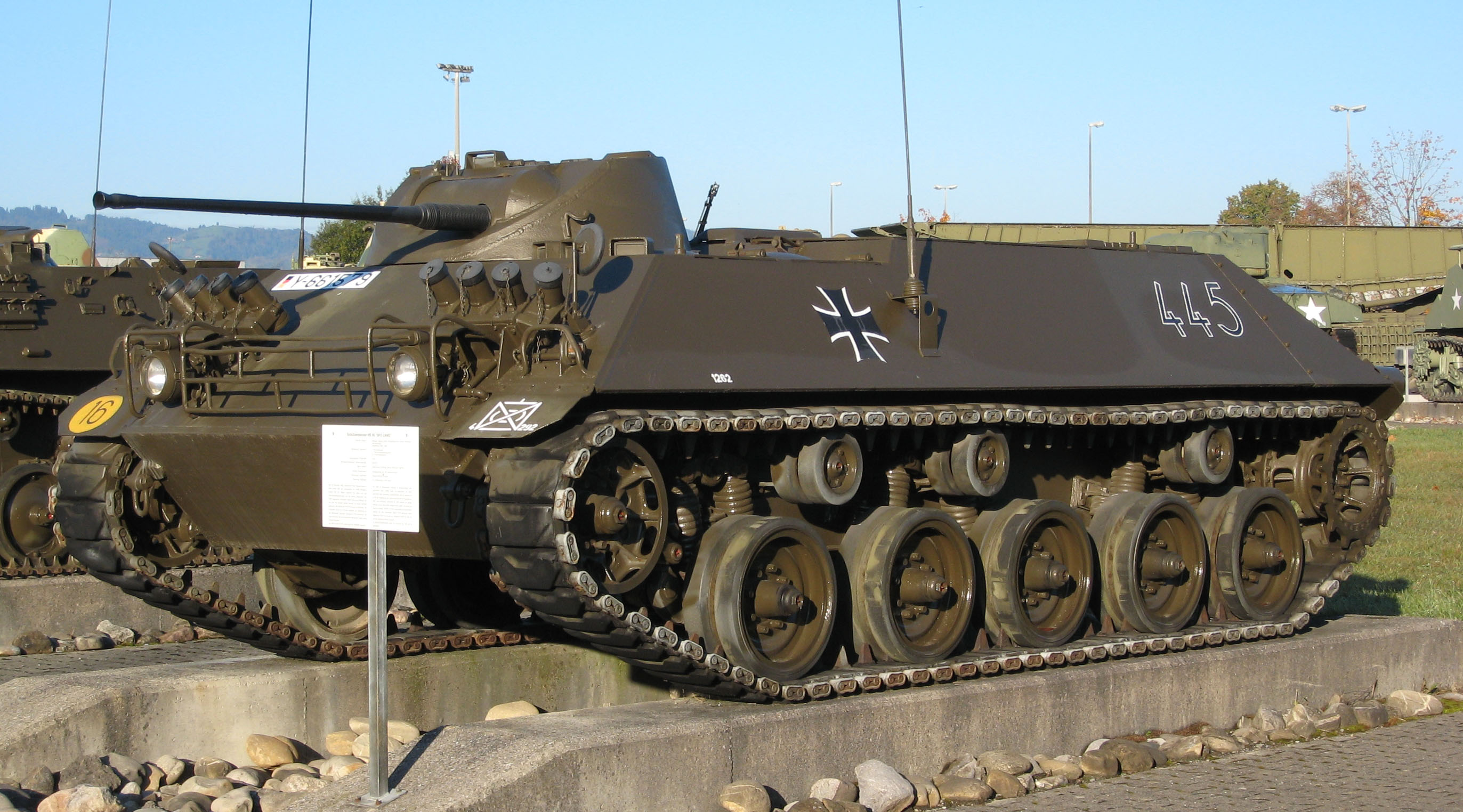 Schützenpanzer Lang HS 30 armoured personnel carrier. Tank Museum Thun.